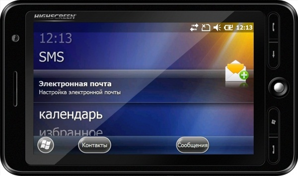 Highscreen Hippo